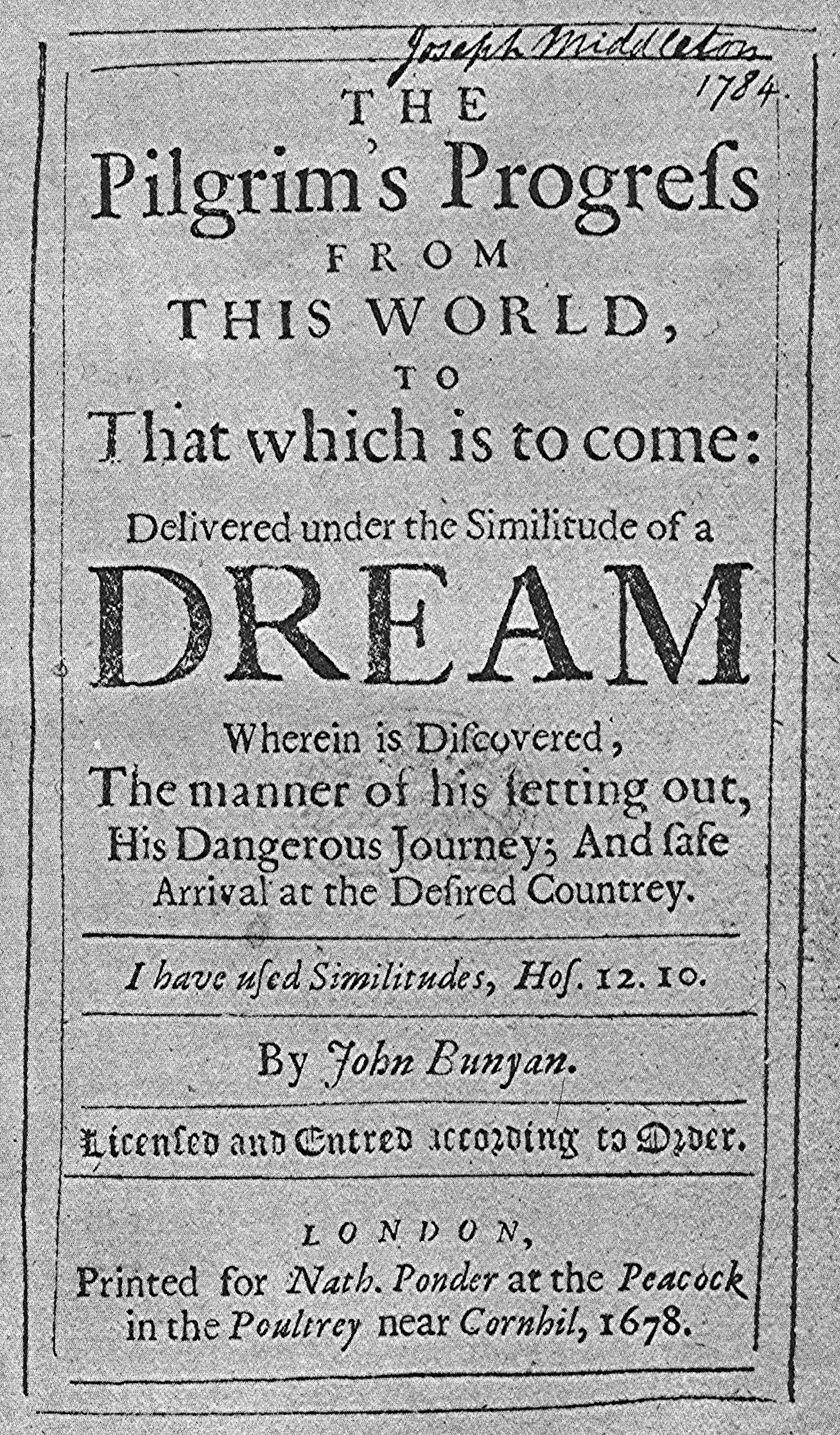 Source: Drboisclair 13:17, 8 February 2007 (UTC), scanned from book in public domain Description: Title page of Pilgrim's Progress Date: 1678 Author: John Bunyan (1628-1688)